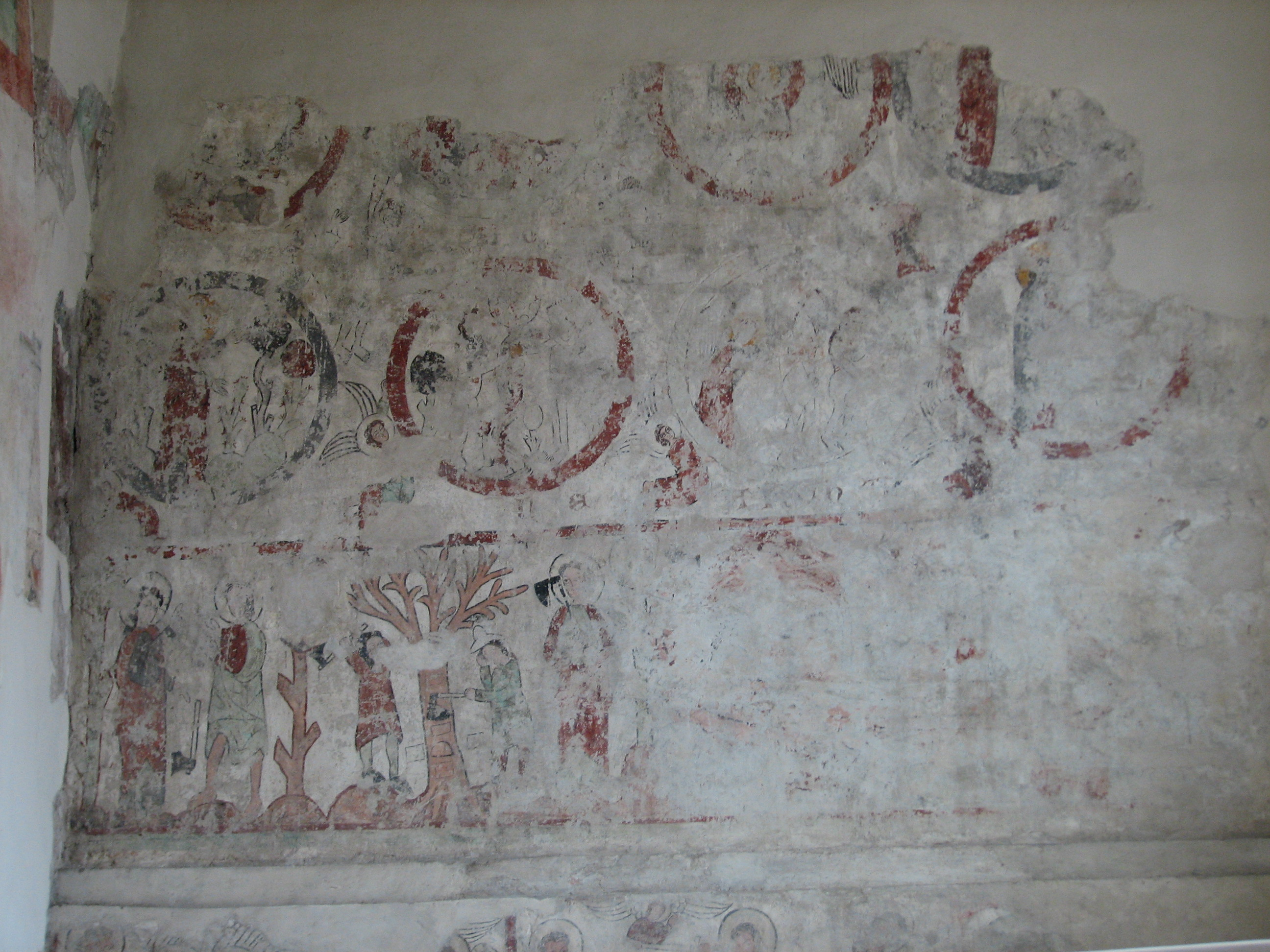 Romanesque church in Czerwińsk nad Wisłą.